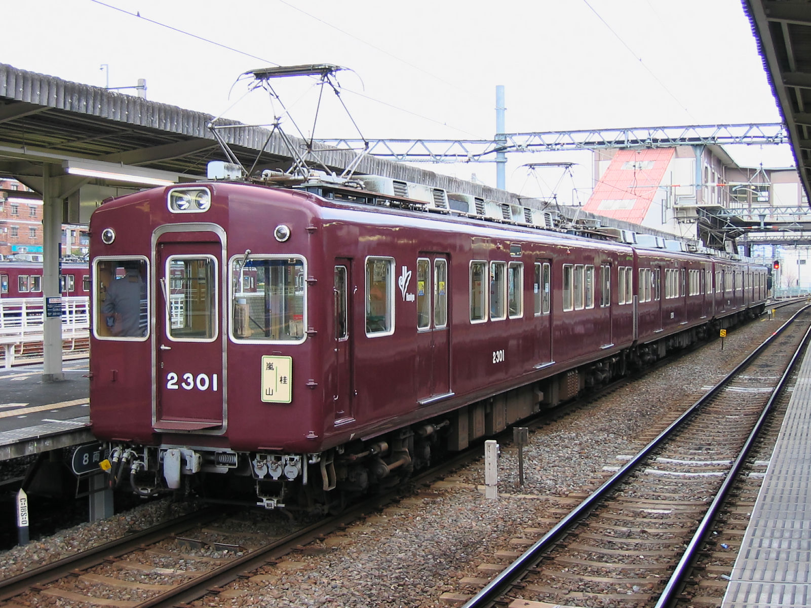 A Hankyu Electric Railway 2300 series EMU at Katsura Station